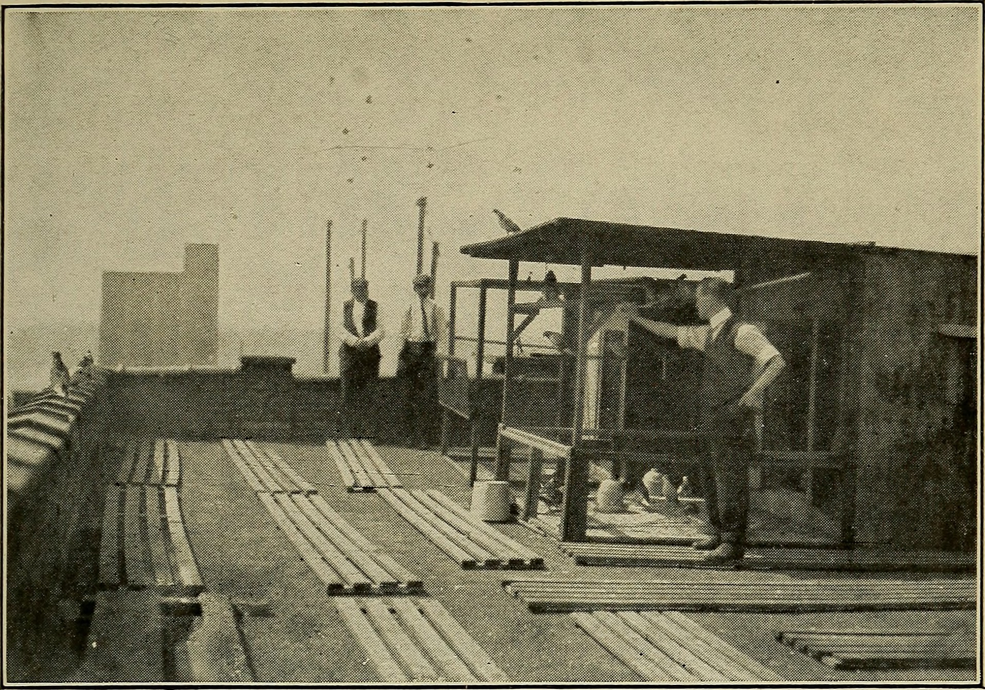 Title: Boyhood and lawlessness. The neglected girl Year: 1914 (1910s) Authors: True, Ruth Smiley, 1886- Neglected girl Subjects: Girls Boys Women Juvenile Delinquency Publisher: (New York : Survey Associates) View Book Page: Book Viewer About This Book: Catalog Entry View All Images: All Images From Book Click here to view book online to see this illustration in context in a browseable online version of this book. Text Appearing Before Image: nities forplaying with crooked dice. It is one of the chief formsof sidewalk amusements in this neighborhood. Up above the sidewalks, on the roofs of the tene-ments, there is some flying of small kites, but pigeonflying is the chief sport. It provides an occupationless immediately remunerative, perhaps, than games ofchance, but developed by the same unmoral tendencieswhich seem to turn all play in the district into vice.Some boys, through methods of accretion peculiar tothis neighborhood, have a score or more of pigeonswhich are kept in the house, and taken up to the roofregularly every Sunday, and oftener during the sum-mer, for exercise. The birds are tamed and carefullytaught to return to their home roofs after flight, butingenious boys have discovered many ways of luringthem to alien roofs, so that now the sport of pigeonflying is as dangerously exciting as a commercial ven-ture in the days of the pirates. Pigeon owners alsotrain their birds to circle about the neighborhood and 28 Text Appearing After Image: Pigeon Flying. A Roof Game